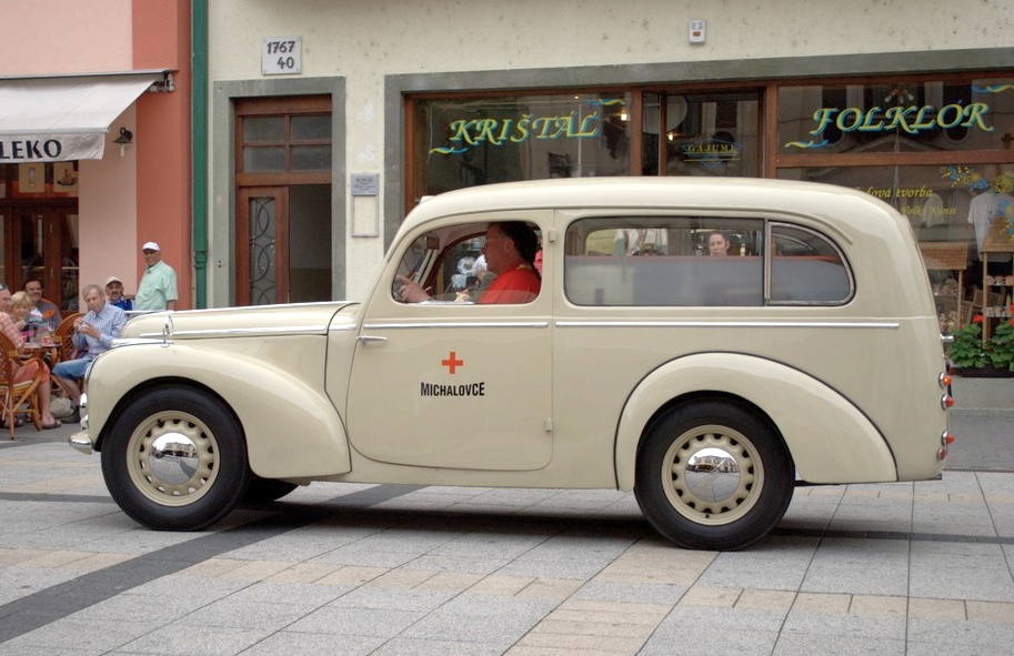 As seen at Zlaté stuhy 2012, Piešťany